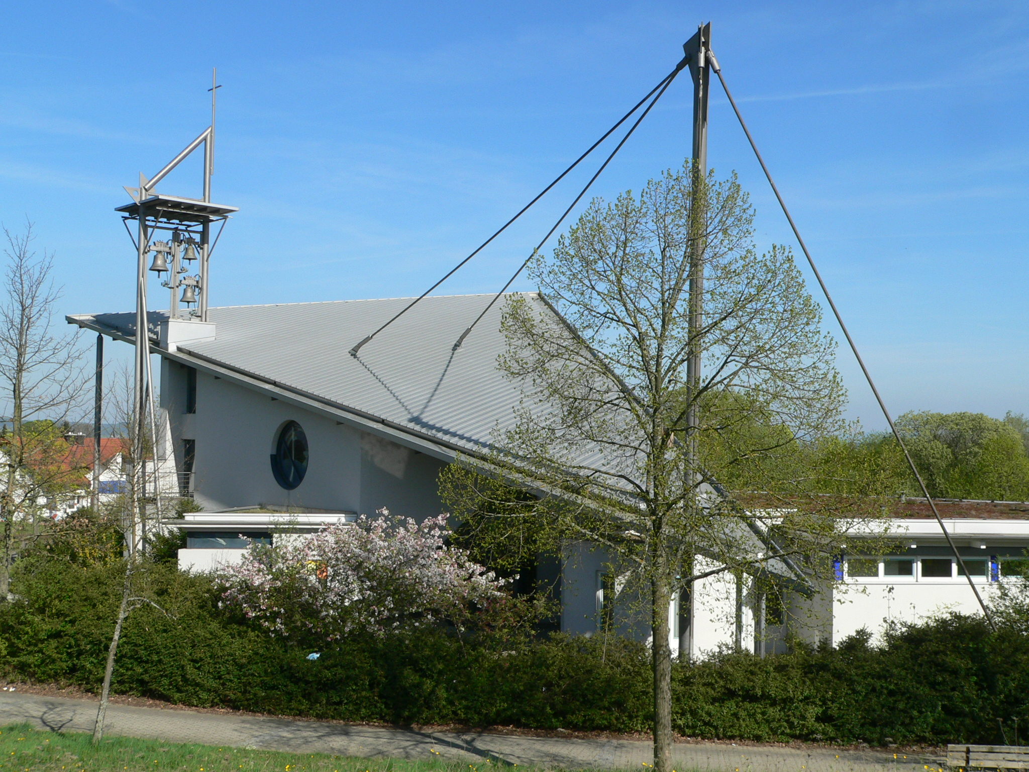 Church Auferstehungskirche in Gäufelden-Nebringen, Gäufelden, Germany